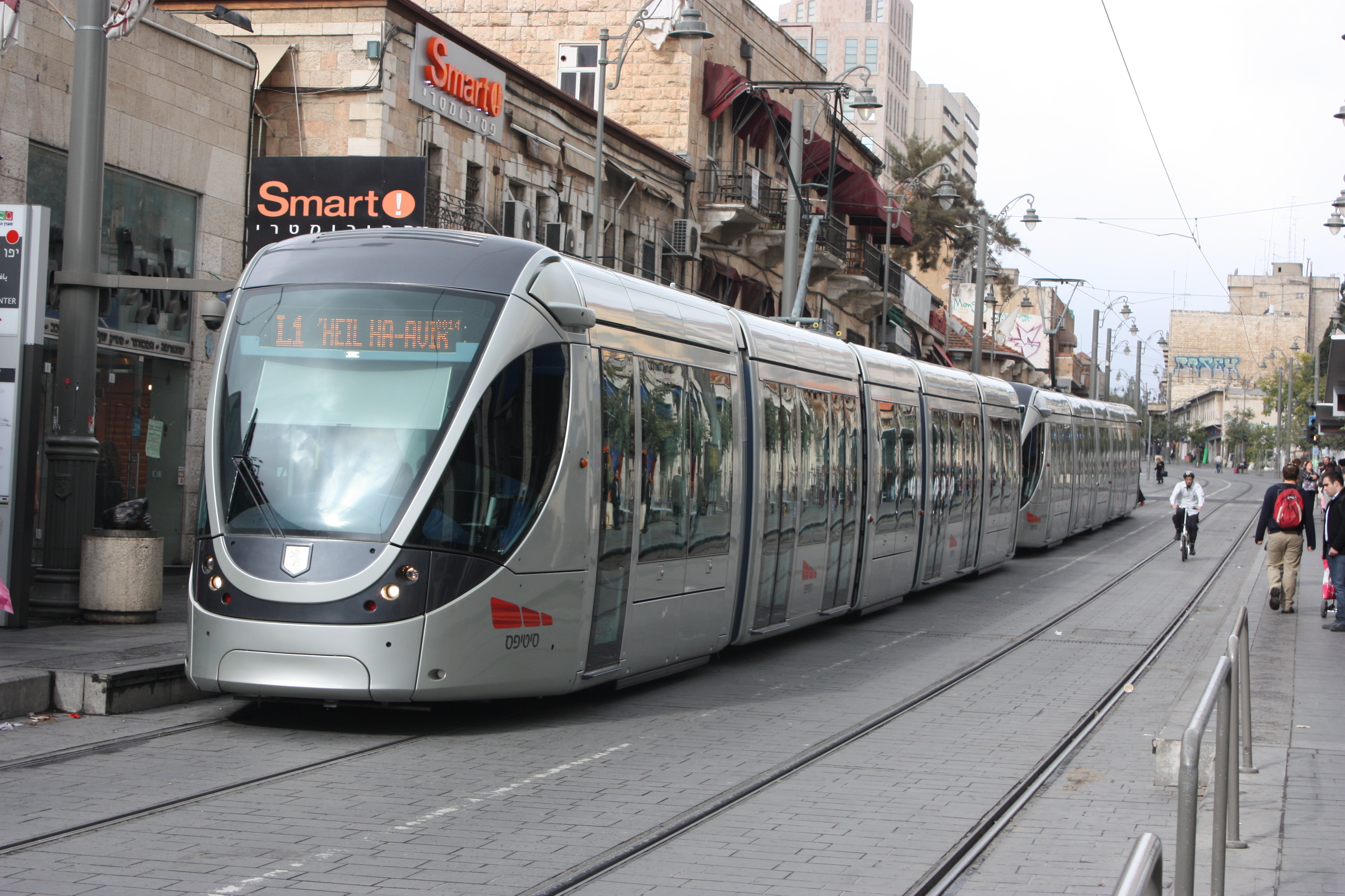 Light train in Jerusalem, Israel - Jaffa Road